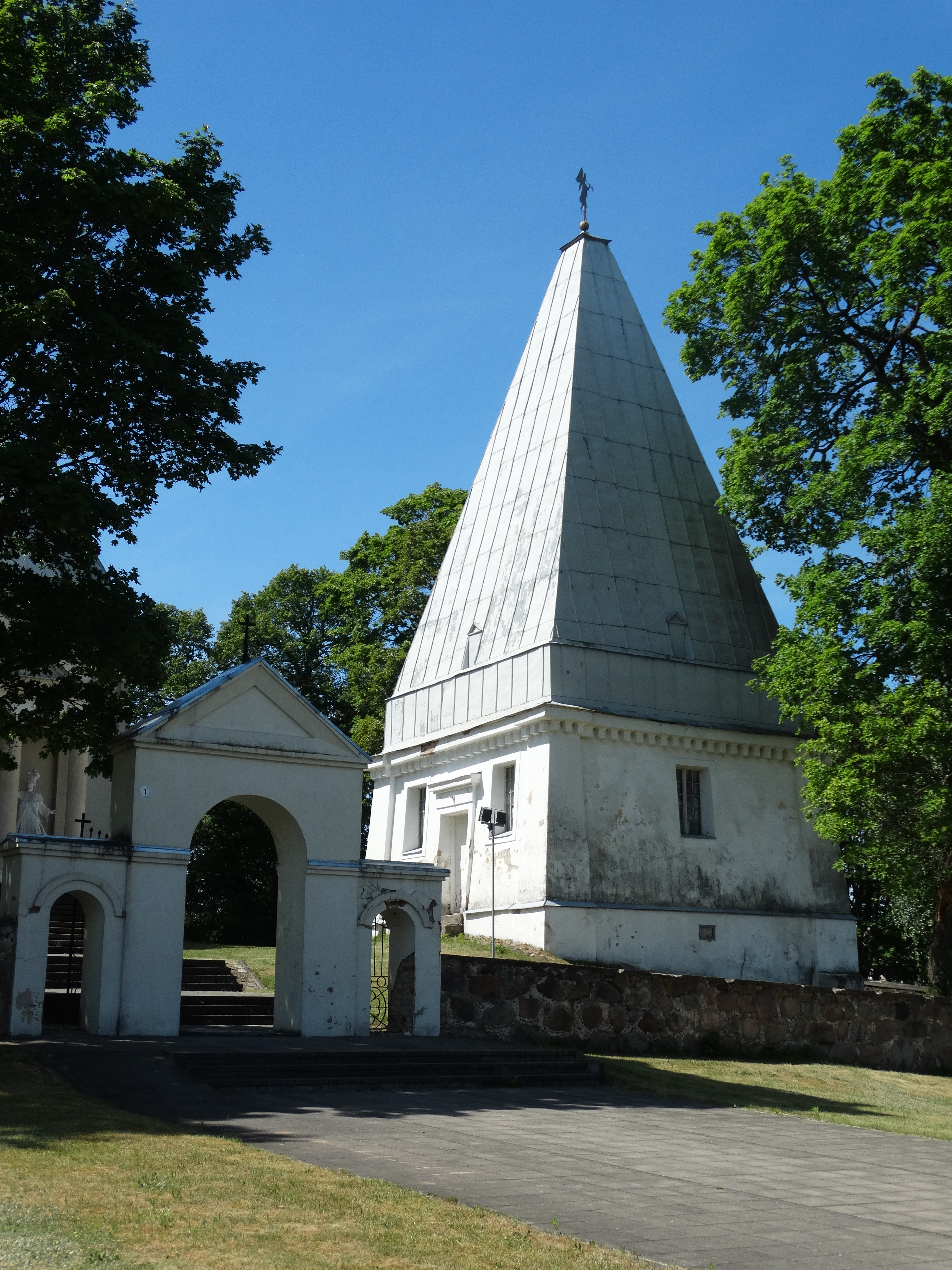 Radziszewski family chapel, Buivydžiai, Vilnius District, Lithuania